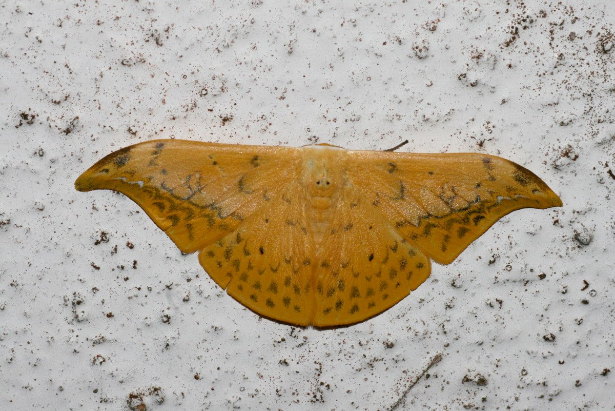 Malaysia, Fraser's Hill. March 2009